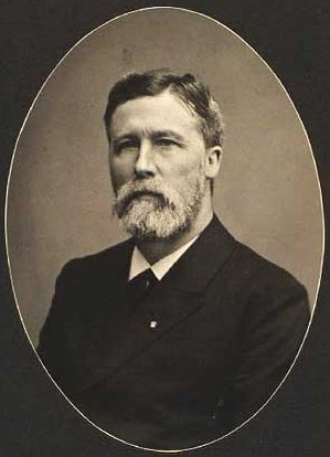 Peter Oluf Brøndsted Hall (1839-1909), Danish estate owner